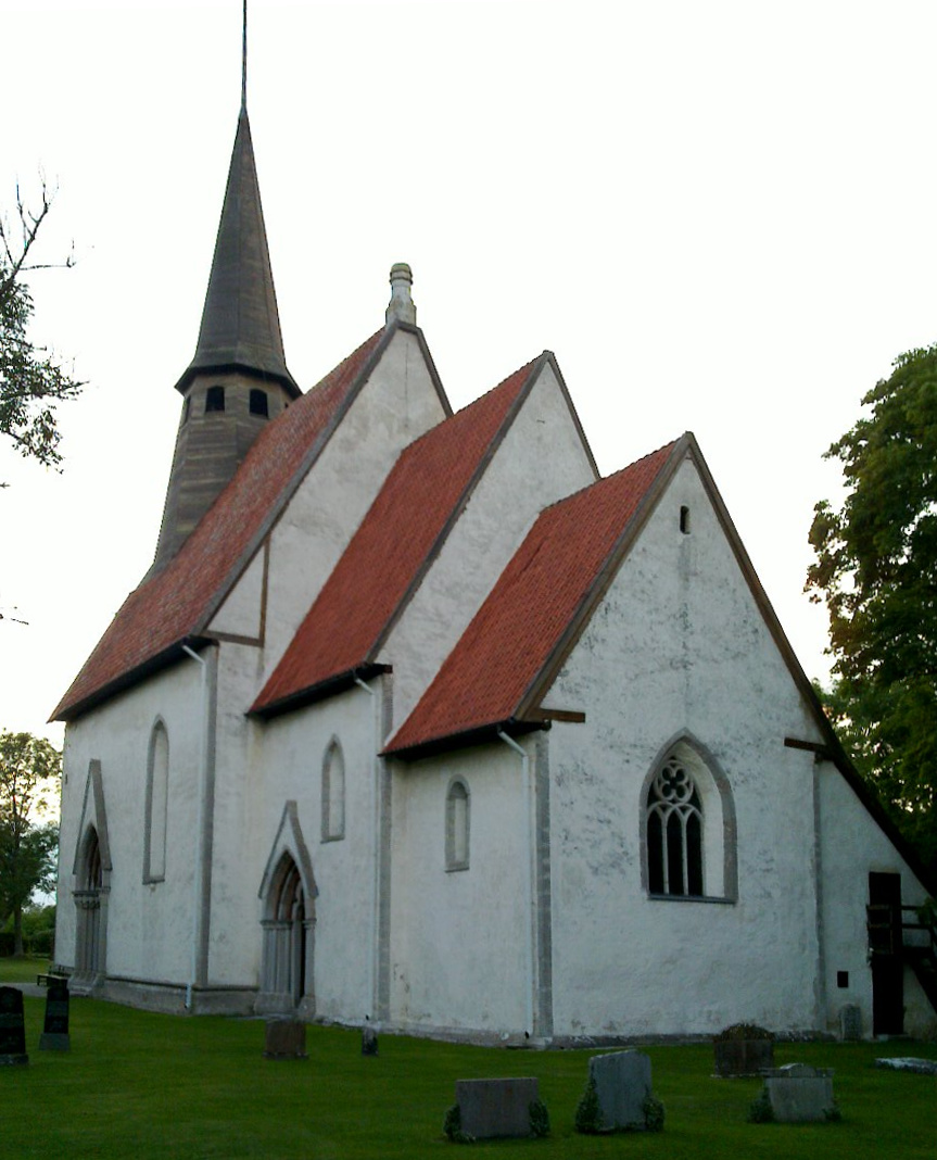 Church of Kräklingbo, Gotland, SE